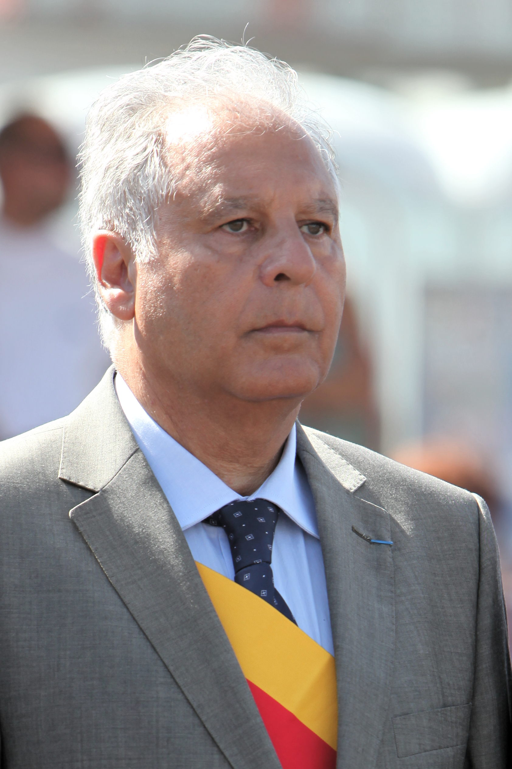 Avi Assouly at the ceremonies for the 14th of July 2012 in Marseille.